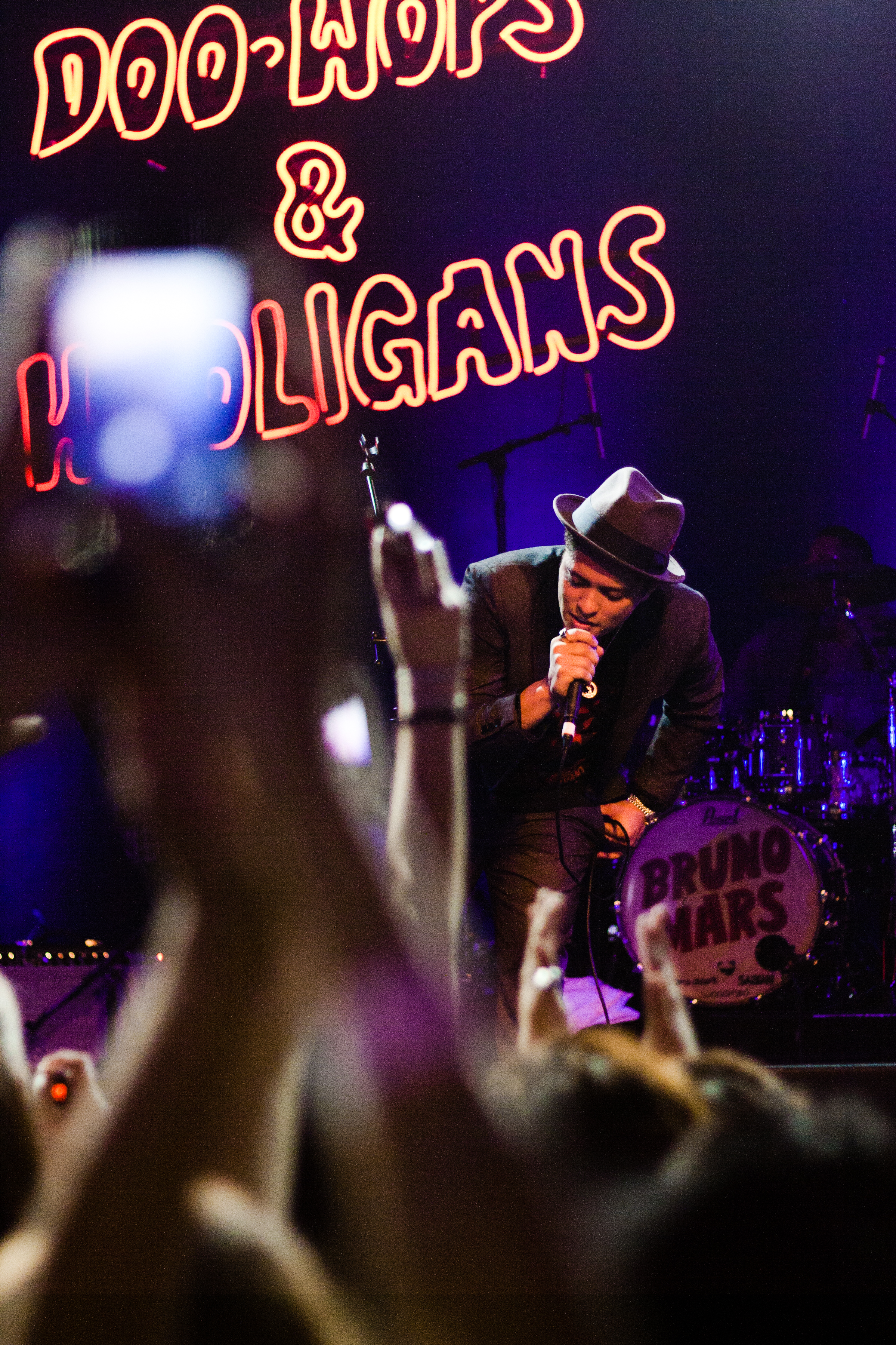 A fan taking a photo to Bruno Mars